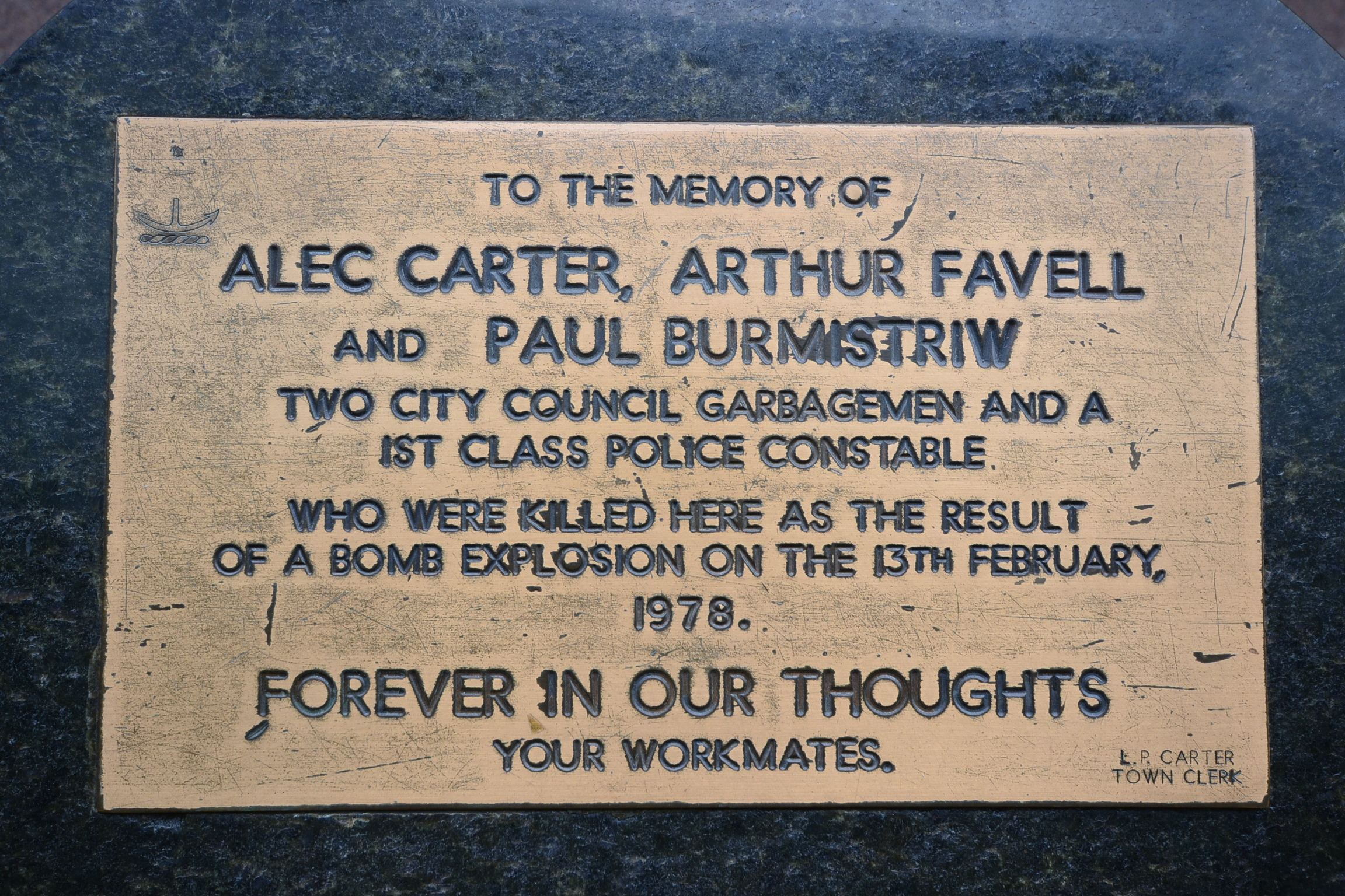 Sydney Hilton bombing plaque